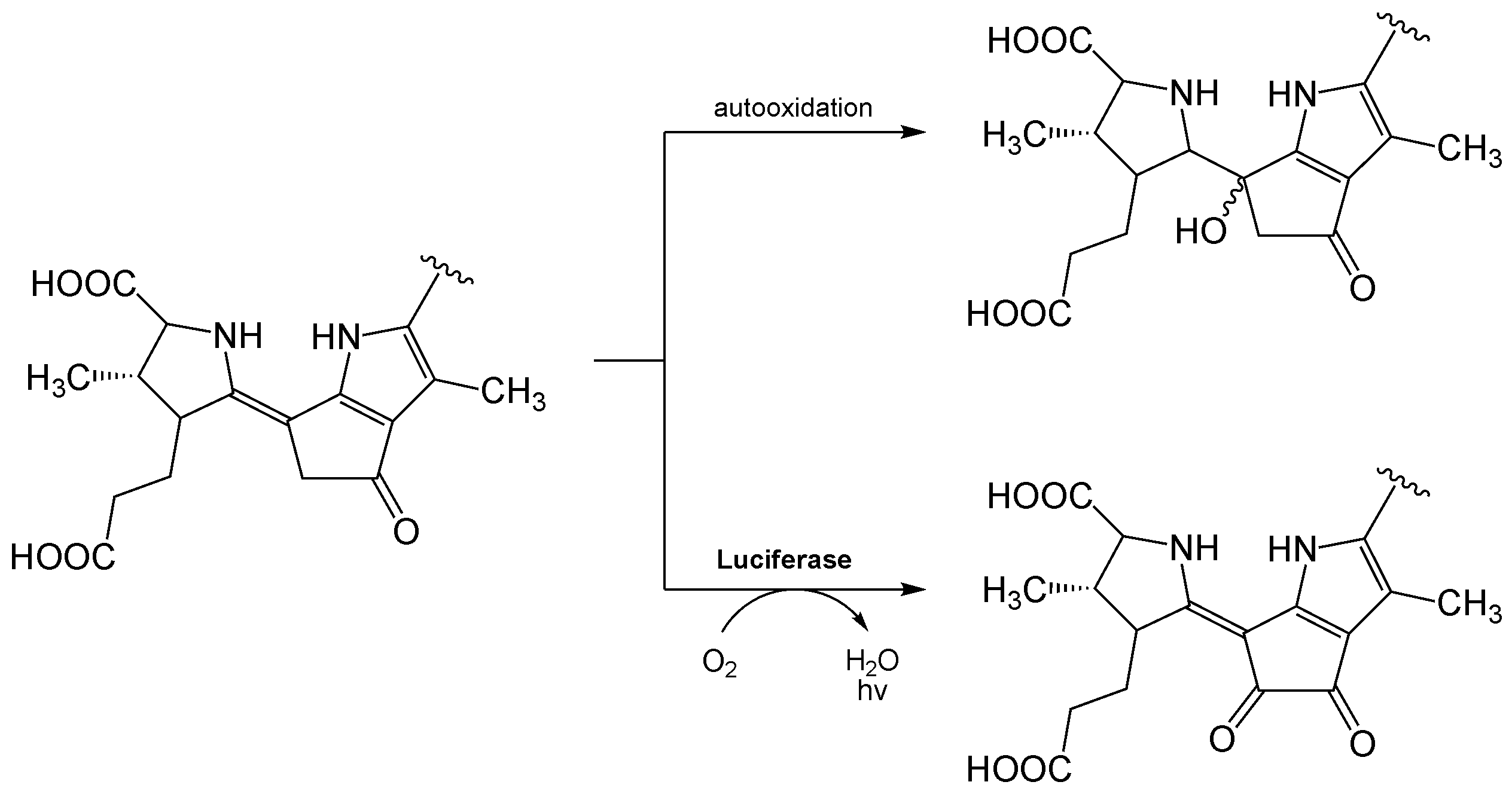 Oxidation of Luciferin-dinoflagellate by a luciferase